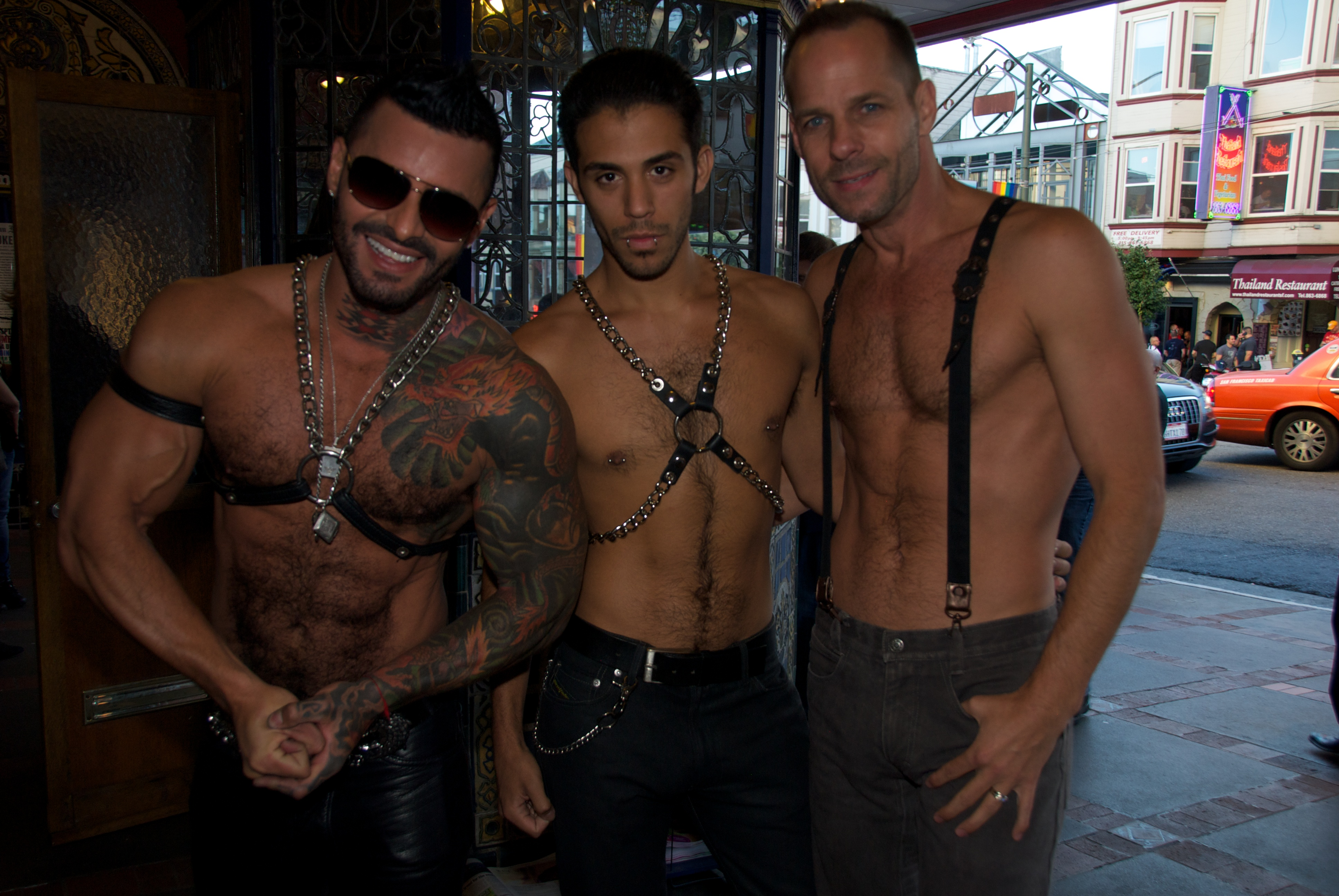 Alexsander Freitas, unknown model and Michael brandon at GayVN Awards 2010